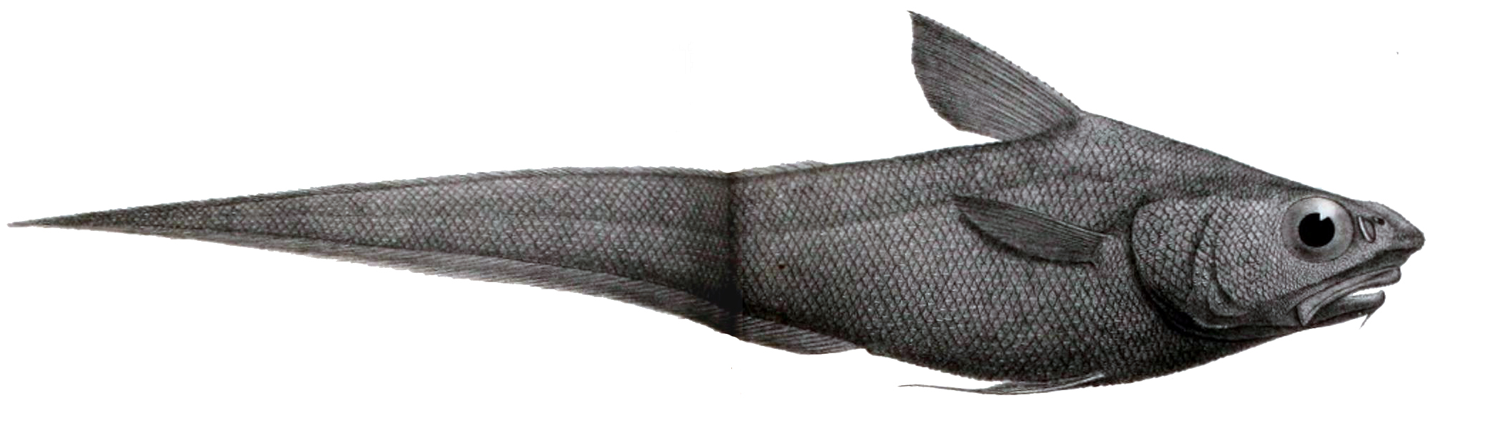 Coelorinchus occa